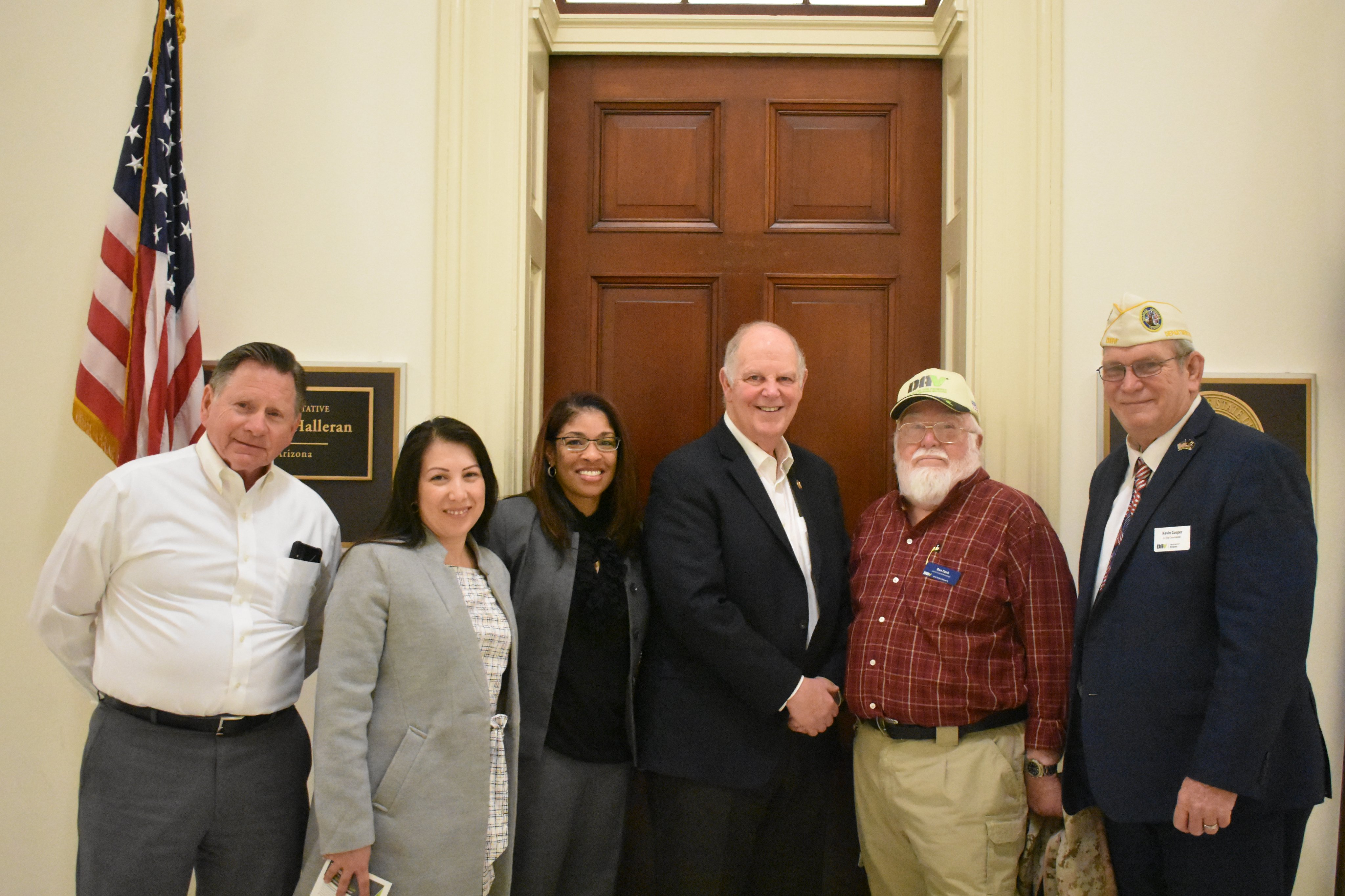 Today I met with @DAVHQ to discuss the ways we can support disabled veterans and their loved ones and provide the best possible health care to those who have made immense sacrifices for our country. Thank you for stopping by. #AZ01